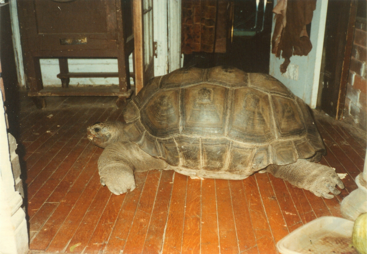 Tony the tortoise, a Galapagos Island tortoise, house pet of Norman Elder. Photo take inside the Norman Elder Museum, first floor, 140 Bedford Road, Toronto, Ontario, Canada.